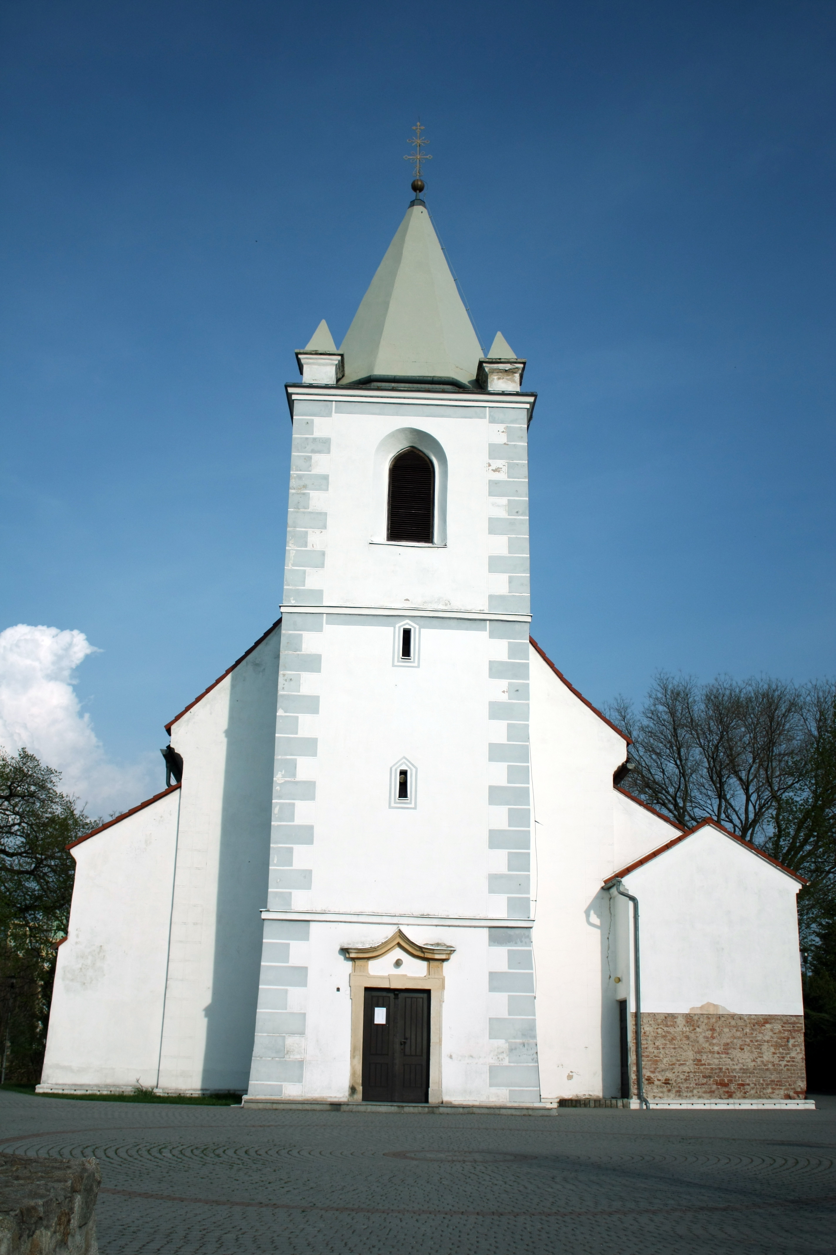 Holy Spirit Church - Devinska Nova Ves.